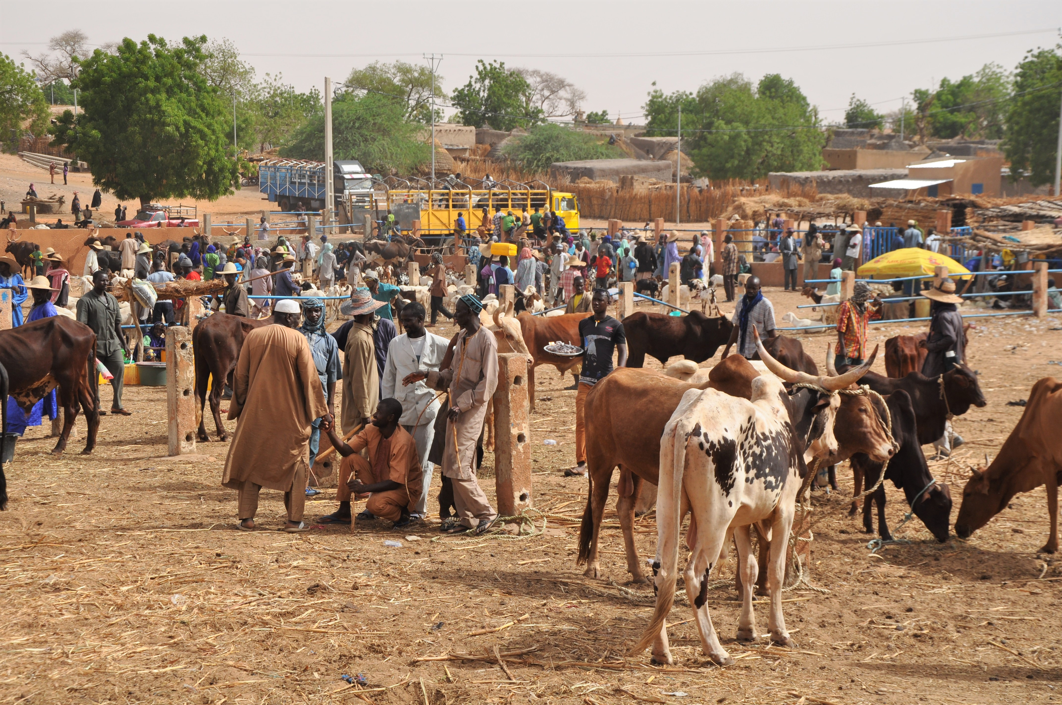 Scene at the livestock market in N'Gonga, a village in Niger (Dosso region, Boboye department, N'Gonga commune).